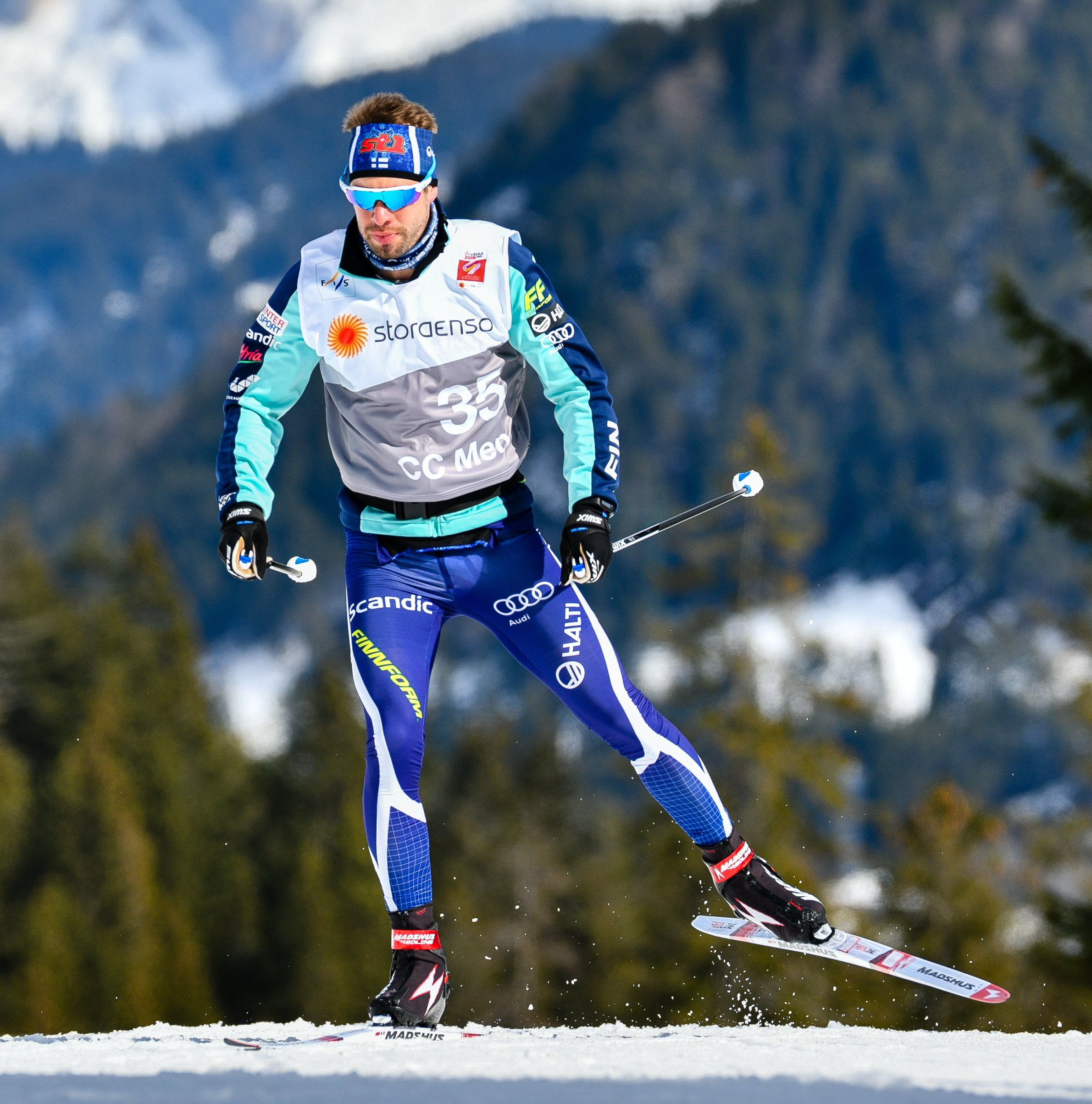 FIS Nordic Wolrd Ski Championships Seefeld 2019 - Men Cross Country 50km Mass Start Free. Picture shows Lari Lehtonen (FIN).